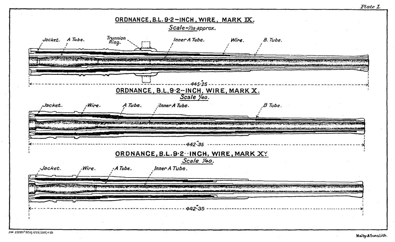 Diagrams showing construction and dimensions of barrels for British BL 9.2-inch Mk IX and X guns.